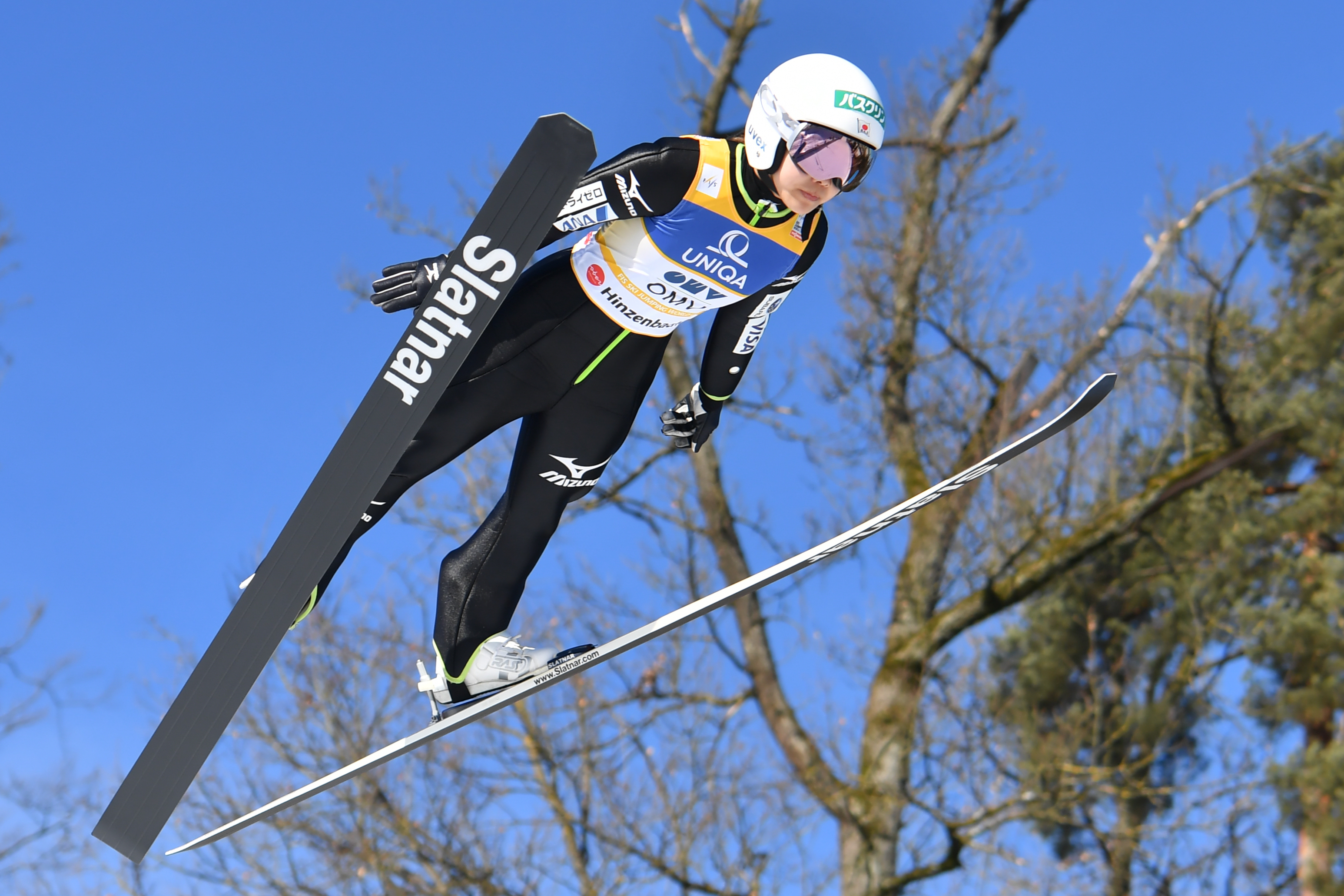 05/02/17, Hinzenbach, Austria, FIS Ski Jumping World Cup Ladies 2017